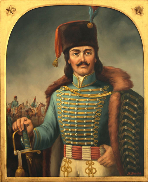 Contemporary reproduction of original from 1800's, painted by Bodó Sándor 1980